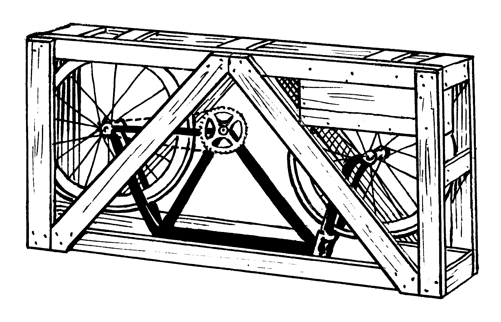 Line art drawing of a crate.